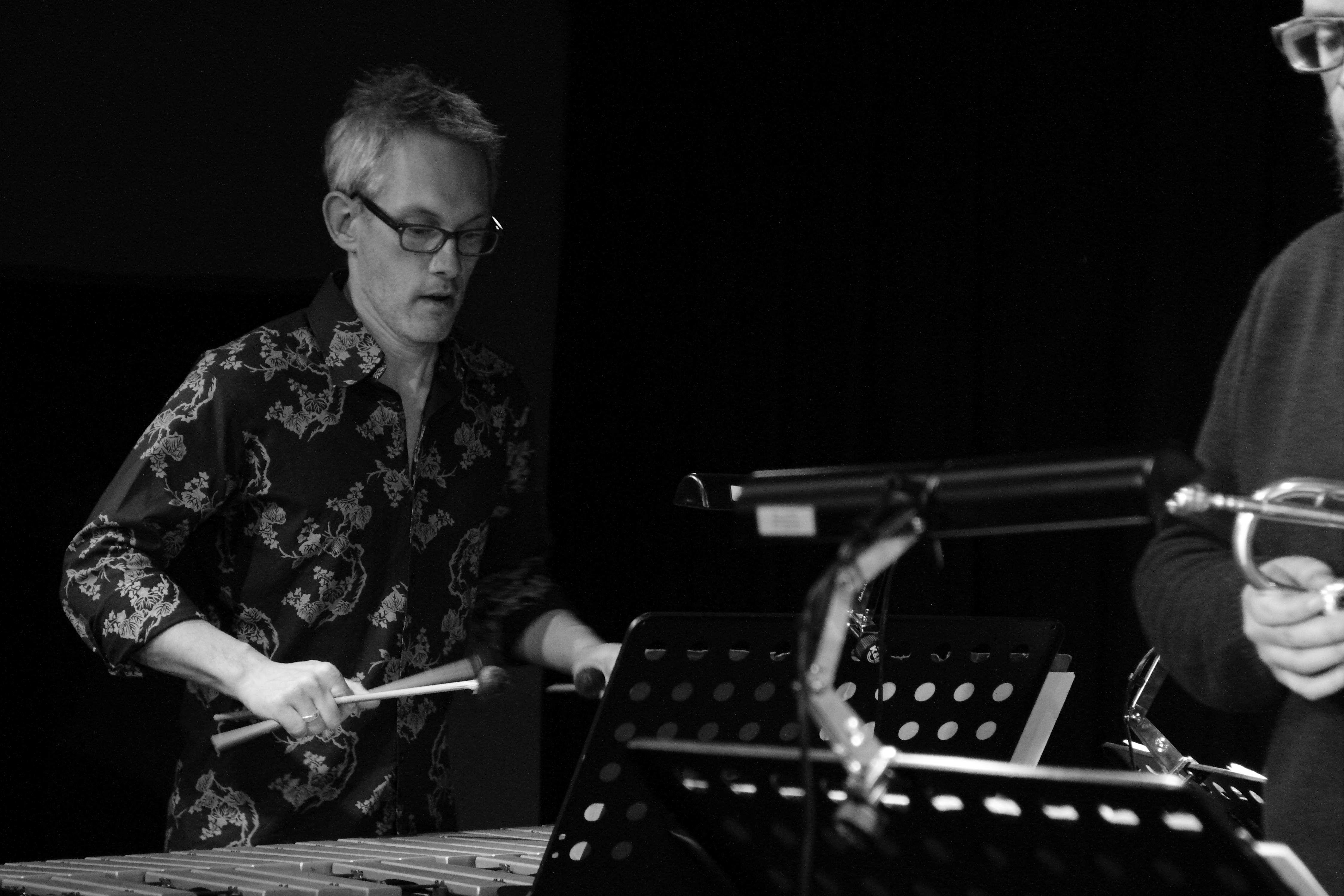 The Nate Wooley Quintet in concert at Club W71, Weikersheim..